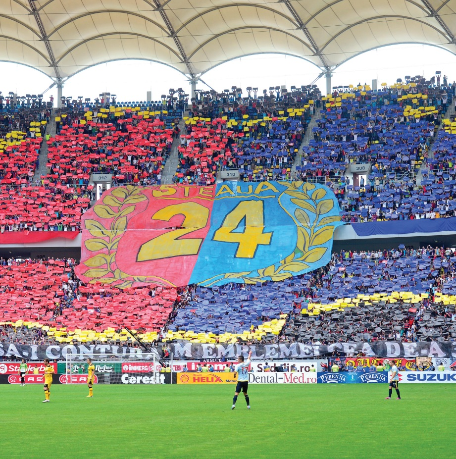 Steaua Bucharest choreography for the 24th title (50,224 supporters)